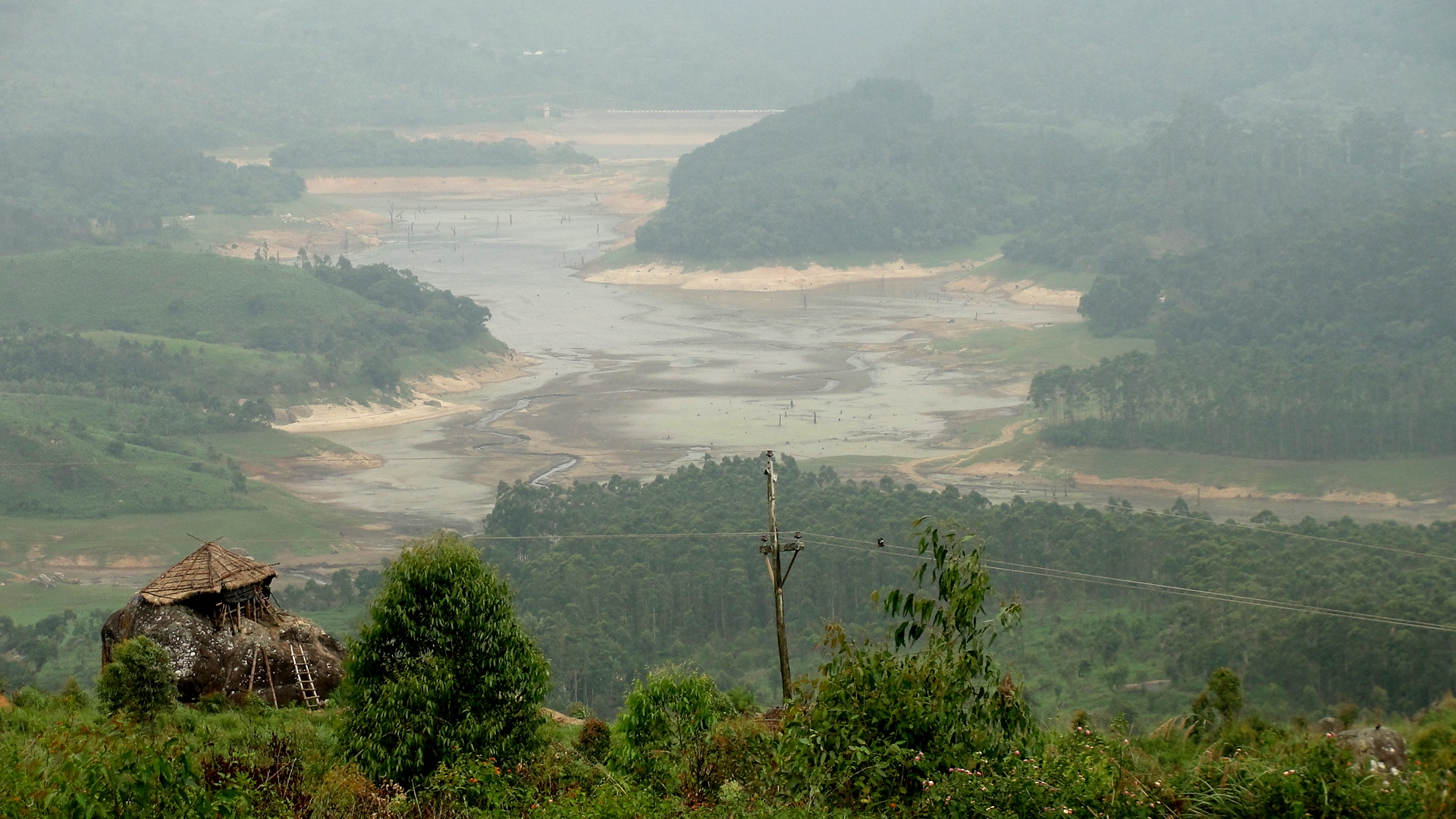 A view from Chinnakanal